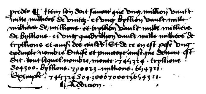 Page where Chuquet first describes the naming method for "zillions".